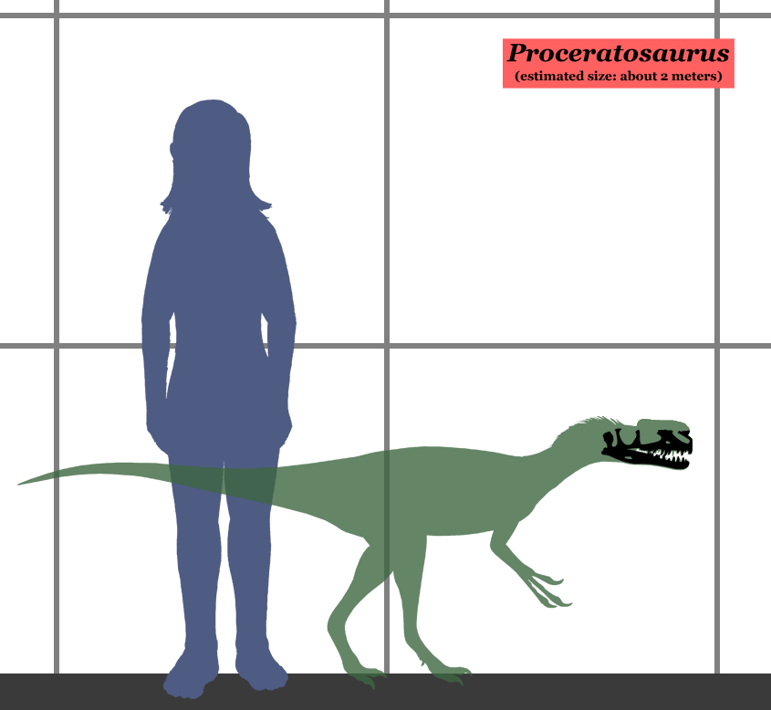 Estimated of the dinosaur Proceratosaurus (Saurichia, Theropoda, Tetanurae, Coelurosauria, Tyrannosauroidea, Proceratosauridae), compared to a human. The body and head proportions are based on a skeletal drawing of its relative KileskusFile:Kileskus aristotocus ZIN PH 5.117.png. The skull are based on Moore-Fay et.al (2010)[1].